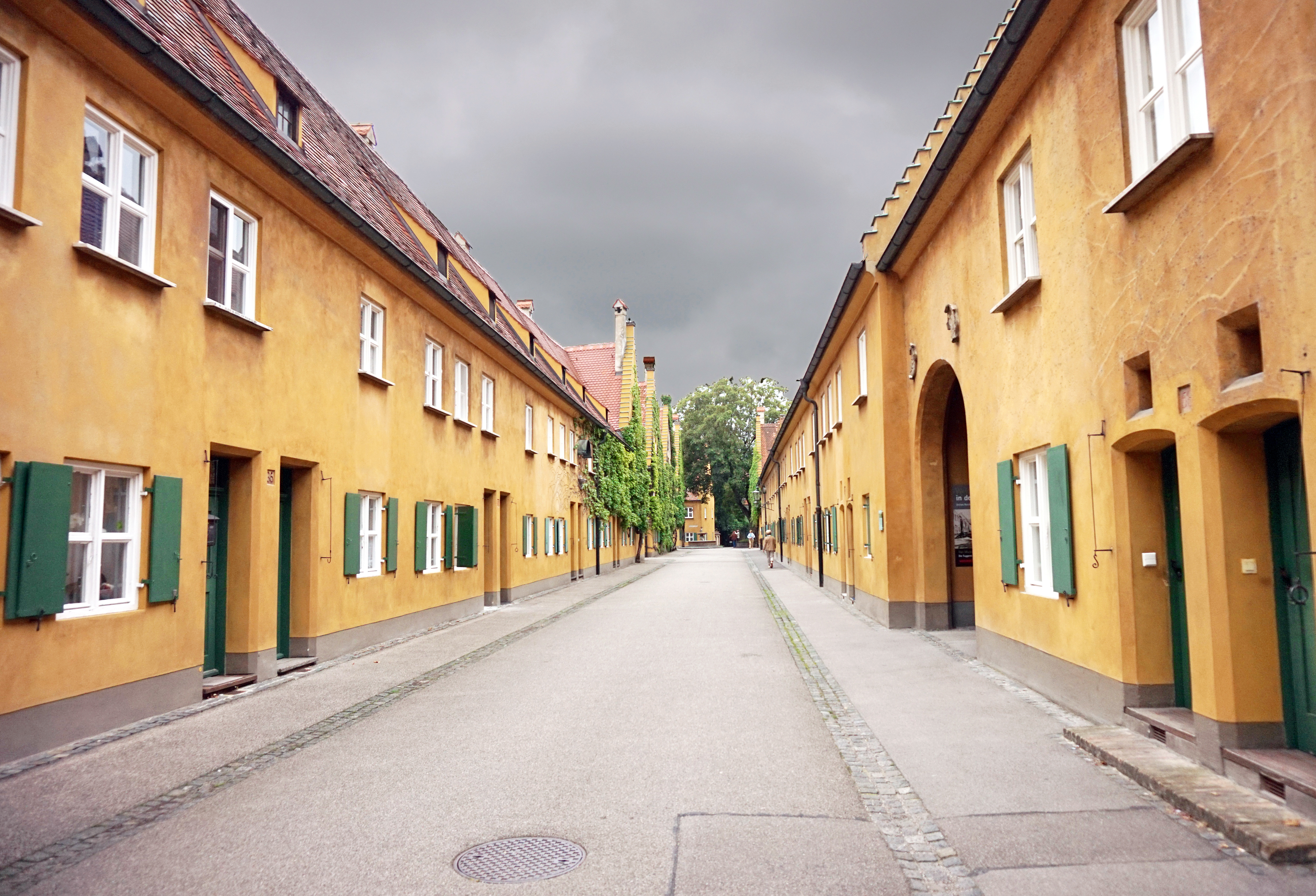 The street Herrengasse in Fuggerei social housing complex in Augsburg.This is a photograph of an architectural monument.